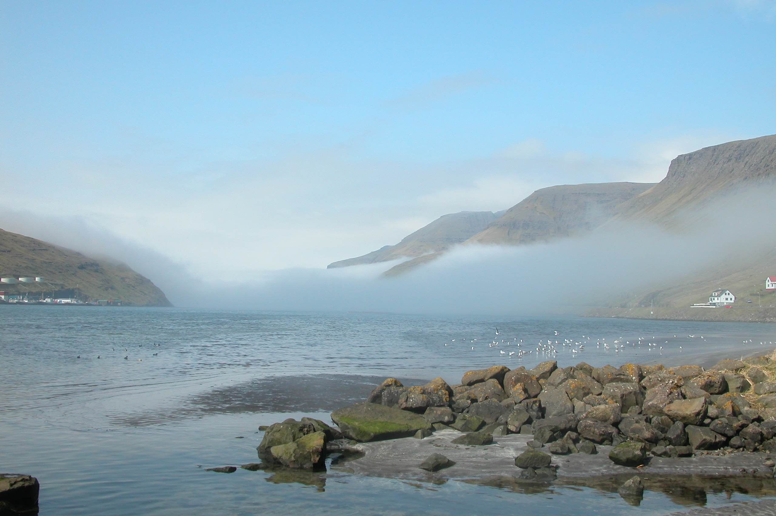 Sørvágur on Vágar, Faroe Islands. View on the fjord